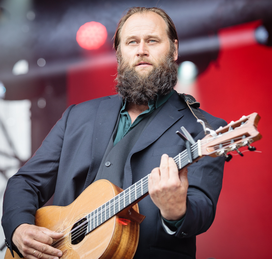 Stein Torleif Bjella at the main stage at Grefsenkollen. The concert was part of Over Oslo and took place on 20. June 2018 in Oslo. Lineup:Stein Torleif Bjella (vocal and guitar)Christer Knutsen (piano)Geir Sundstøl (guitar)Unidentified (bass guitar and double bass)Kenneth Kapstad (drums)